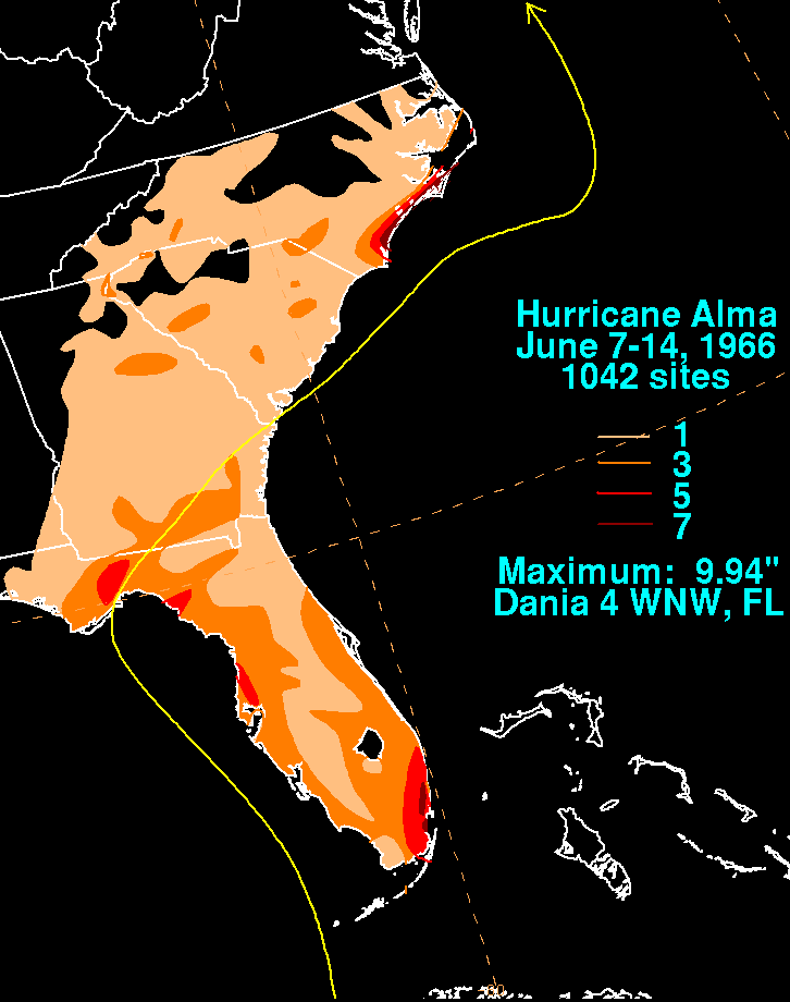 Storm total rainfall map of Hurricane Alma during June 1966.